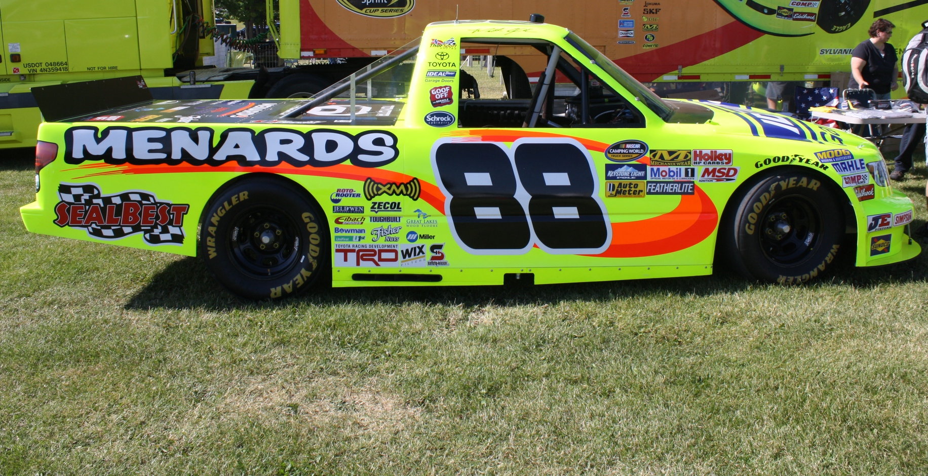 The Toyota Tundra that Matt Crafton raced in the NASCAR Camping World Truck Series.